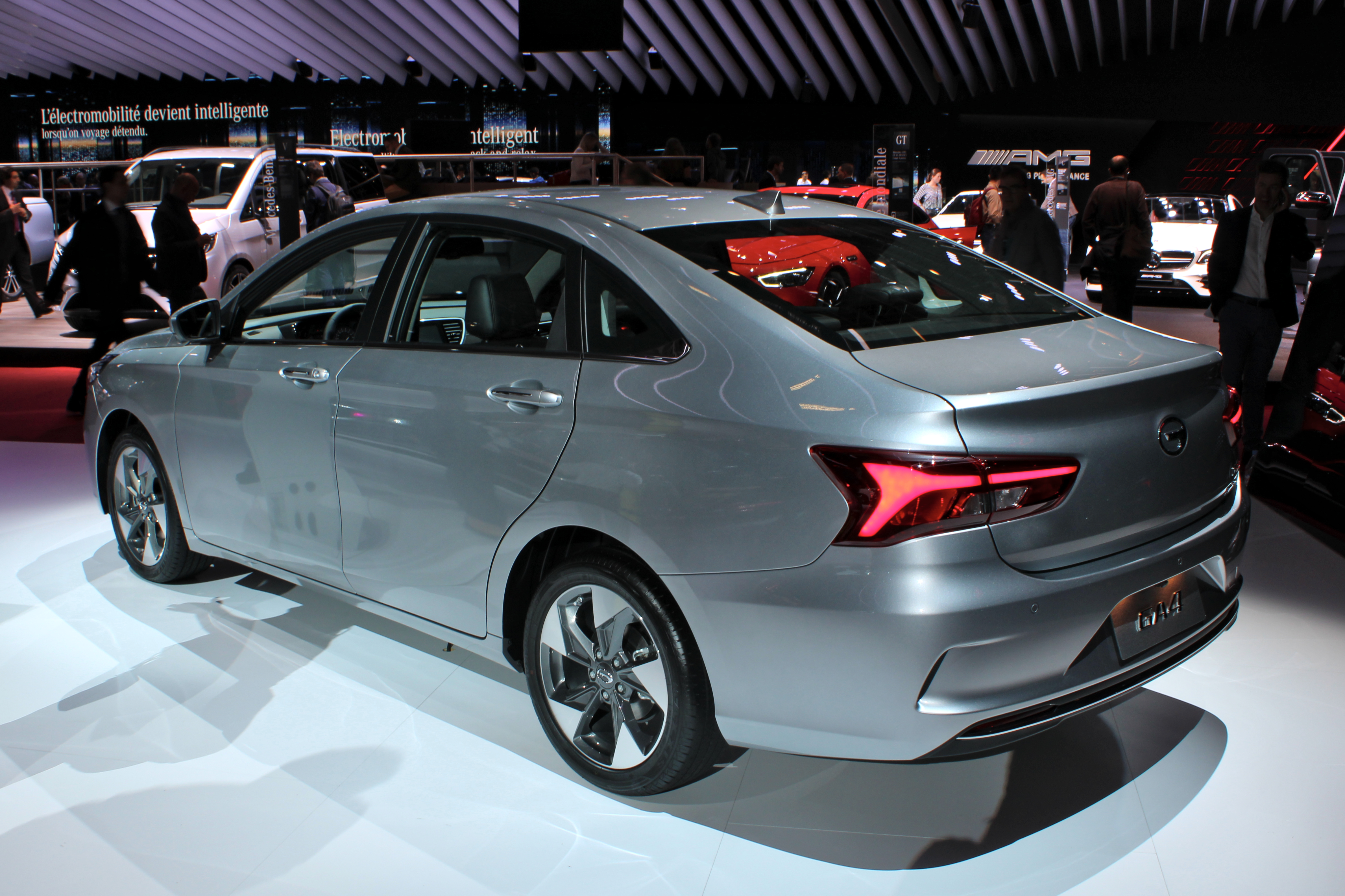 GAC Motor GA4 at Paris Motor Show 2018